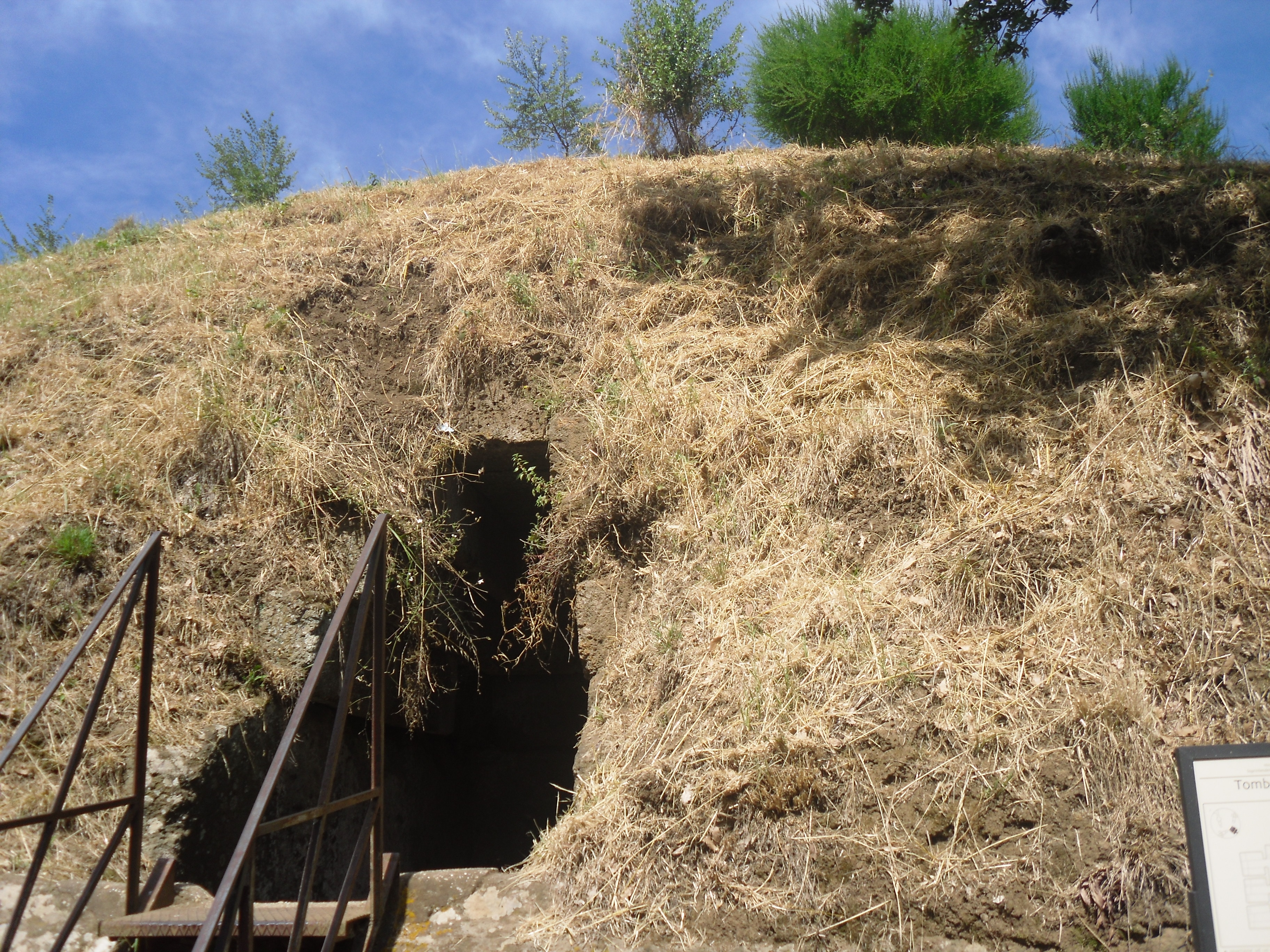 The outside of "Tomba dei Vasi Greci", an ancient Etruscan tomb in the necropolis of Banditaccia